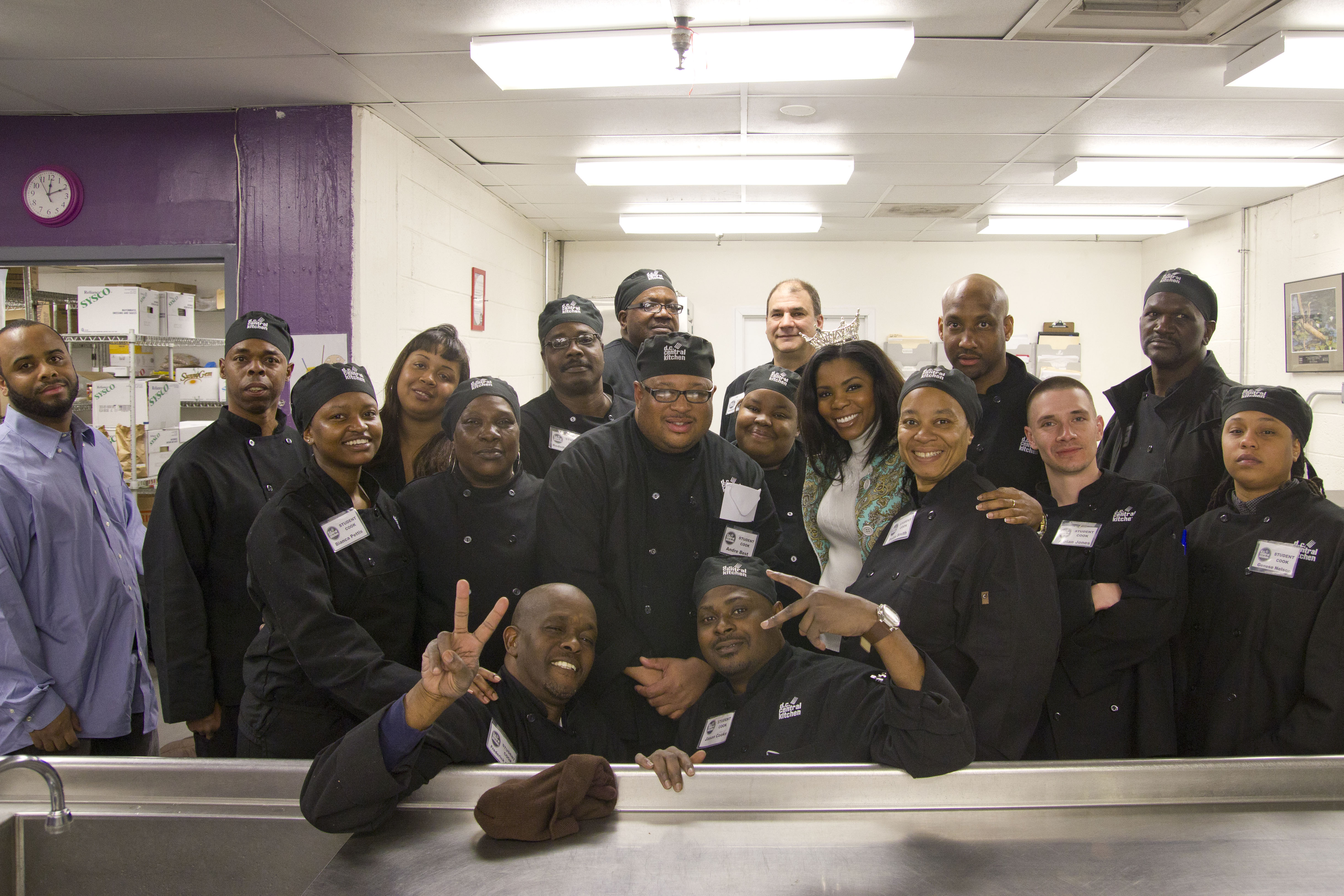 Miss Kentucky 2010, Djuan Trent, takes a tour of DC Central Kitchen. Djuan's platform issue is Homeless Prevention: A Hand Up, Not a Hand Out.